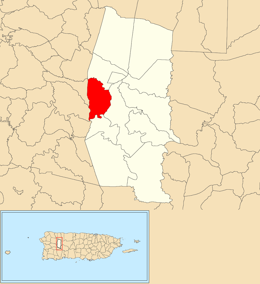 Espino, Lares, Puerto Rico locator map